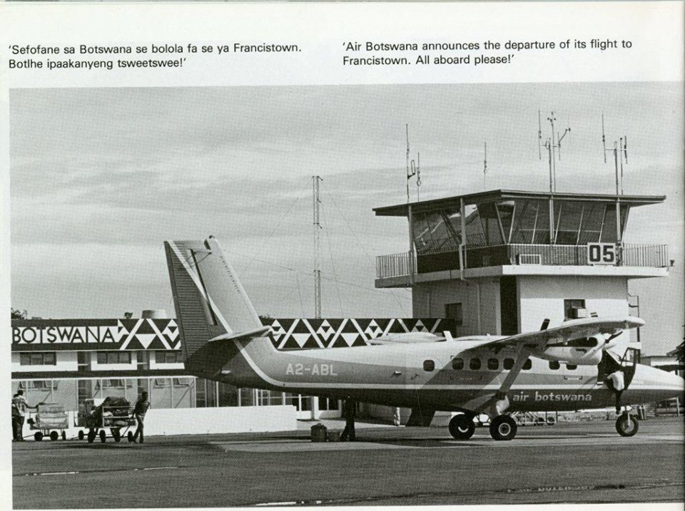 Air Botswana flight number BNB 6382 in 1981